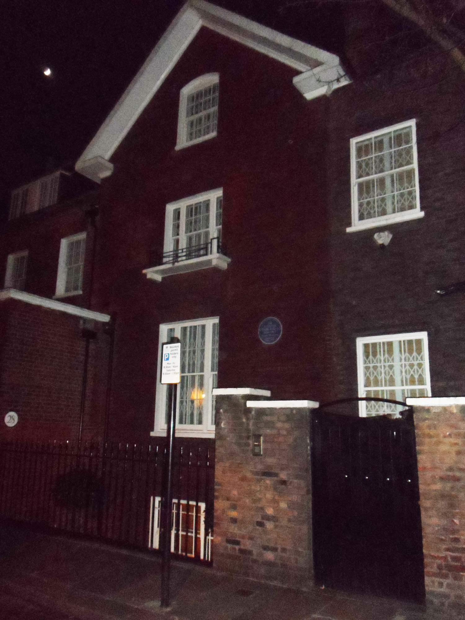 Sir Winston Churchill KG 1874-1965 Prime Minister lived and died here